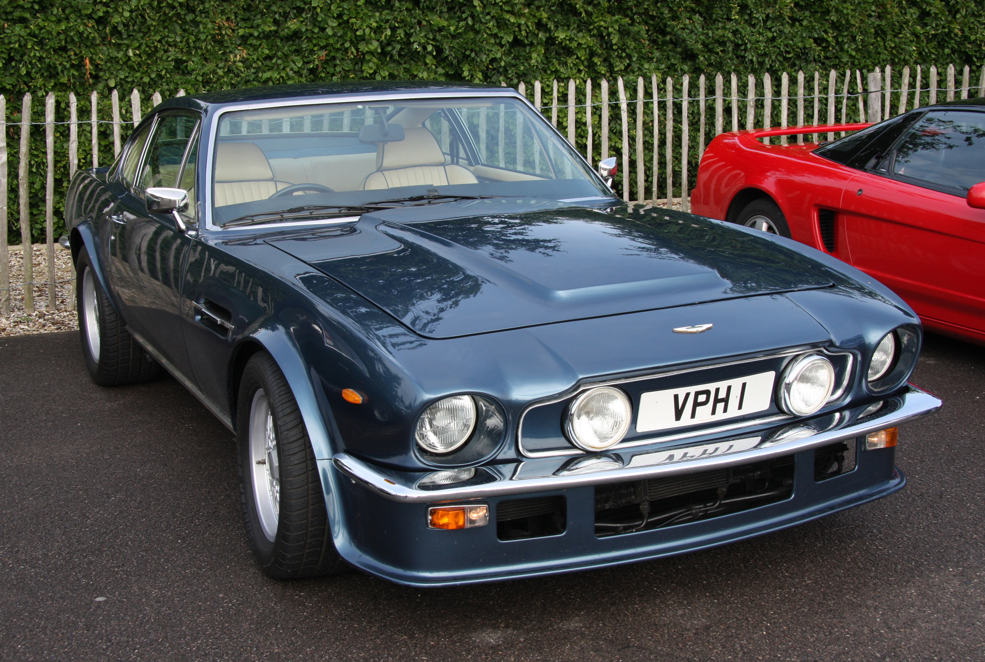 Aston Martin V8 Vantage